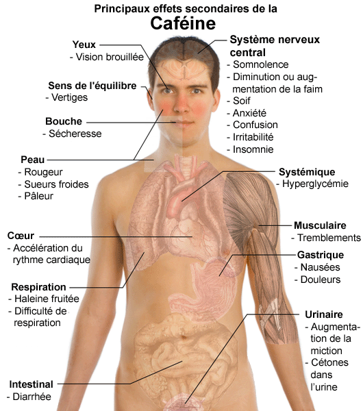 Main side effects of Caffeine. References: Caffeine (Systemic). MedlinePlus (2000-05-25). Archived from the original on 2007-02-23. Retrieved on 2006-08-12. Model: Mikael Häggström. To discuss image, please see Template_talk:Häggström diagrams